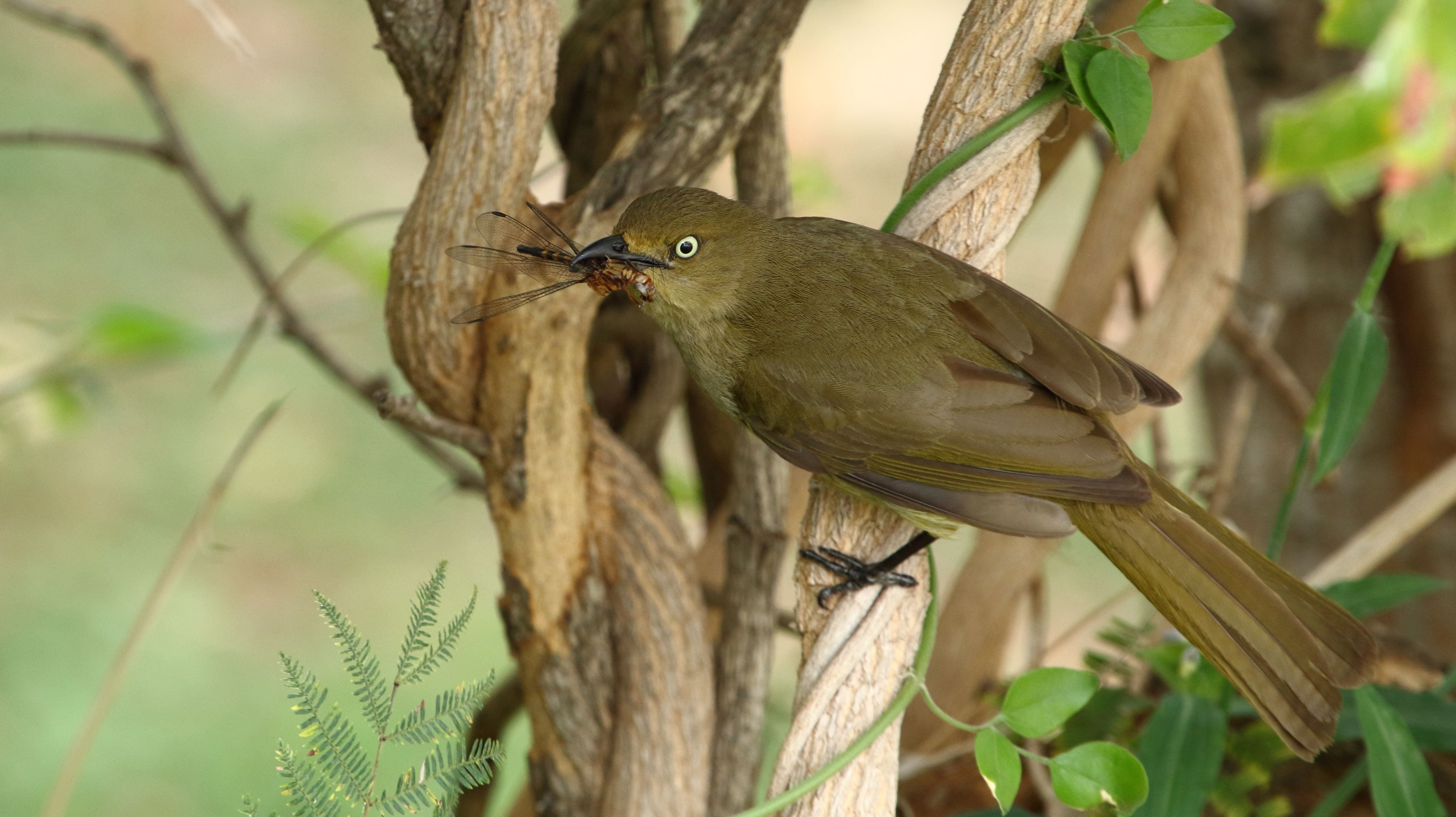 Nominate race of the Sombre greenbul at Ngwenya Lodge, Mpumalanga, South Africa. It is near the contact zone with subsp. A. i. mentor, and likely shares some of its features.